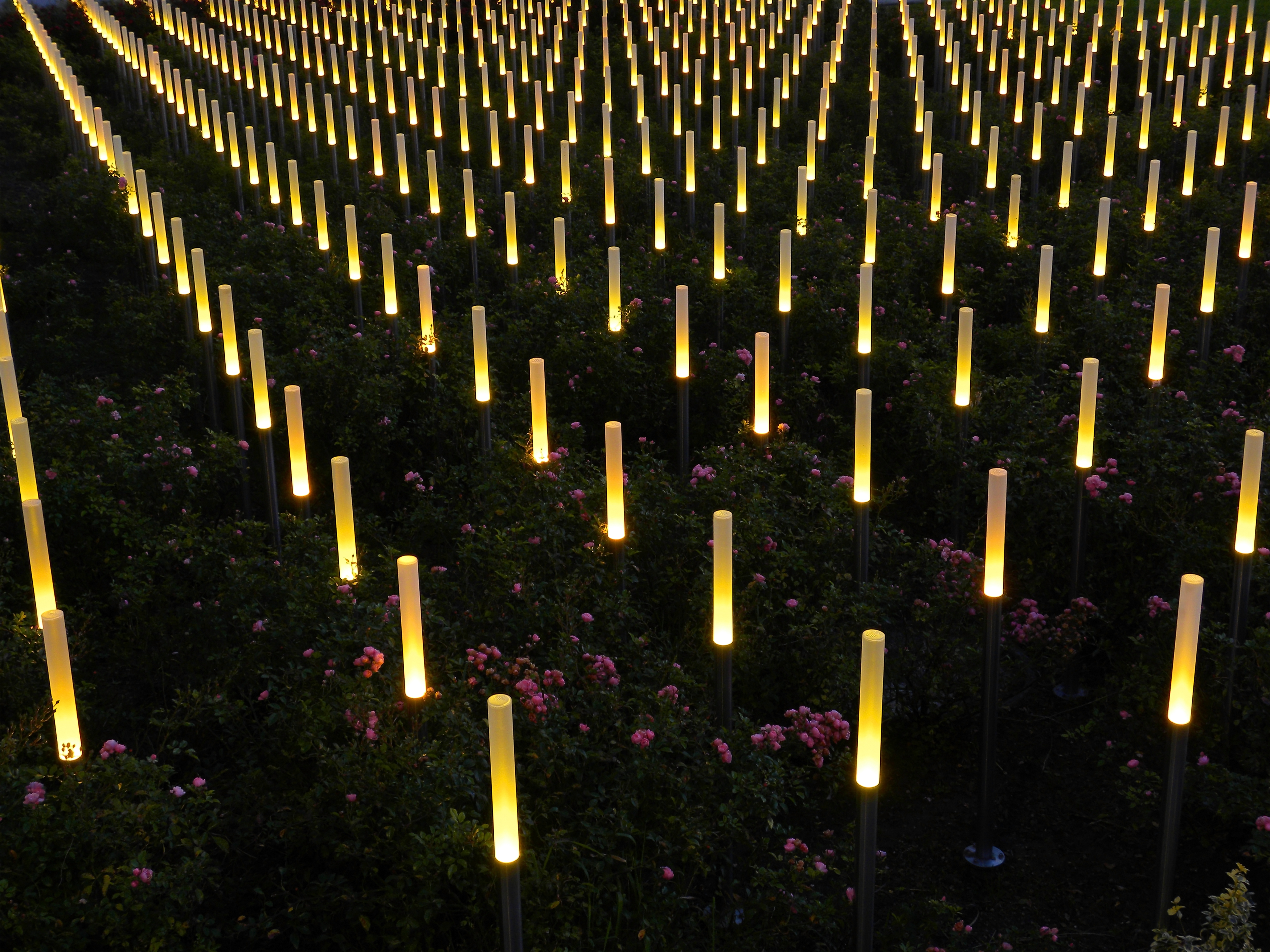 Memorial for the children, who have been murdered by the National Sozialist Euthanasia during 1940-45 at "Am Spiegelgrund" - Please read